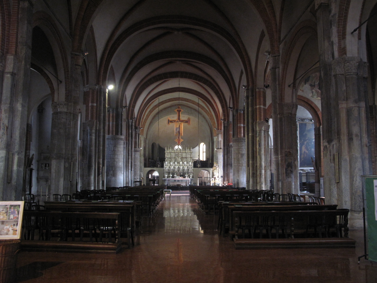 Basilica of Saint Eustorgius in Milan Italy - Main nave